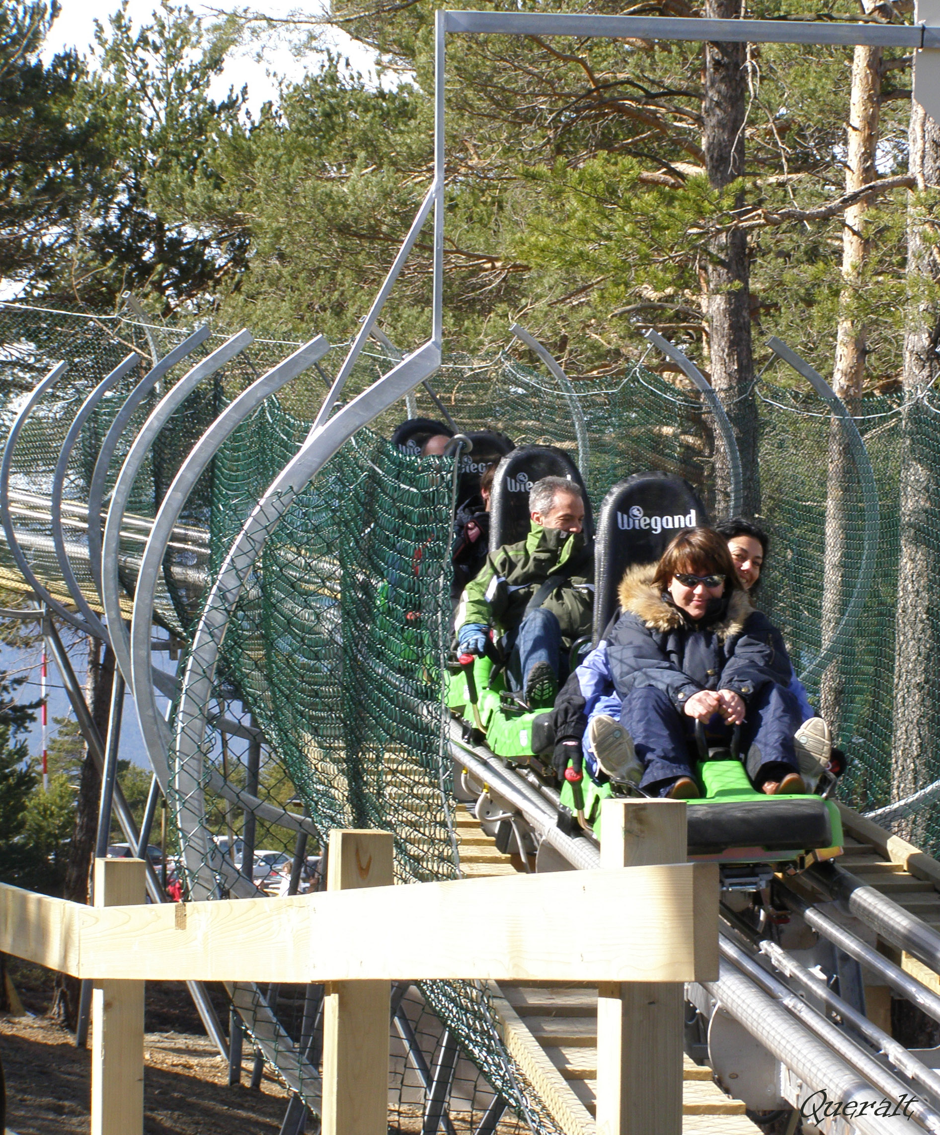 Image of the tobotronc in Naturlandia (Andorra)